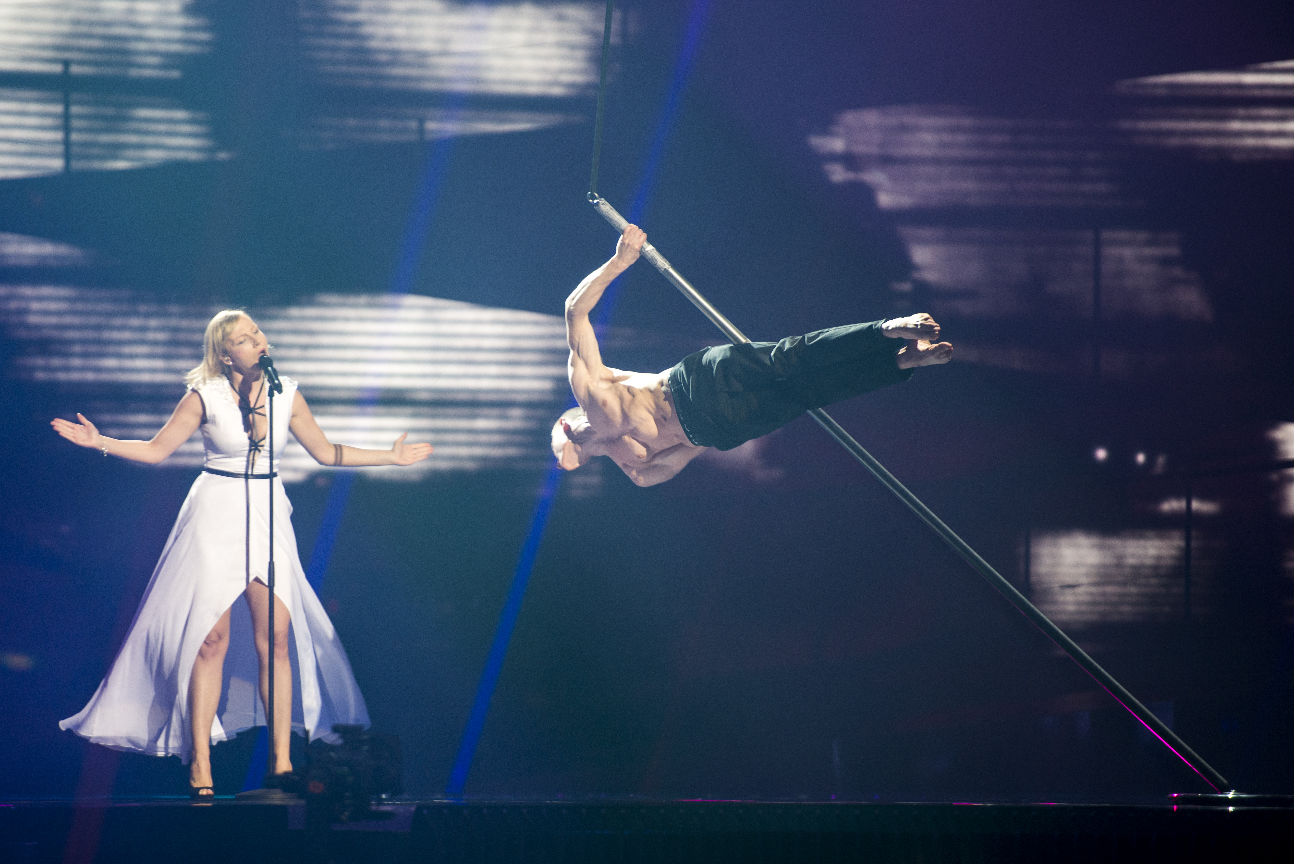 ManuElla representing Slovenia with the song "Blue And Red" during a rehearsal before the second semi final of the Eurovision Song Contest 2016 in Stockholm. (Help translate this text)